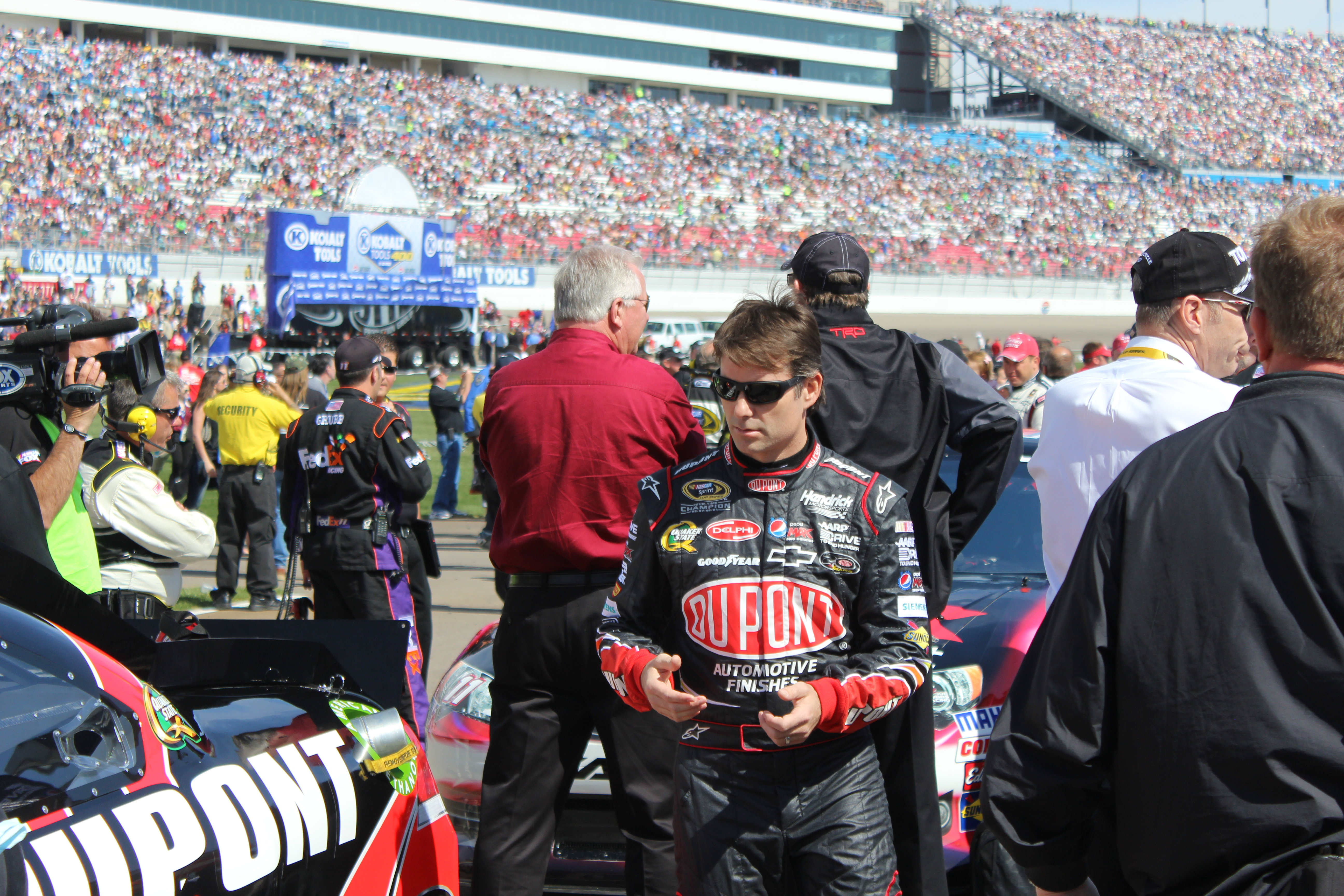 Jeff Gordon prepare to race